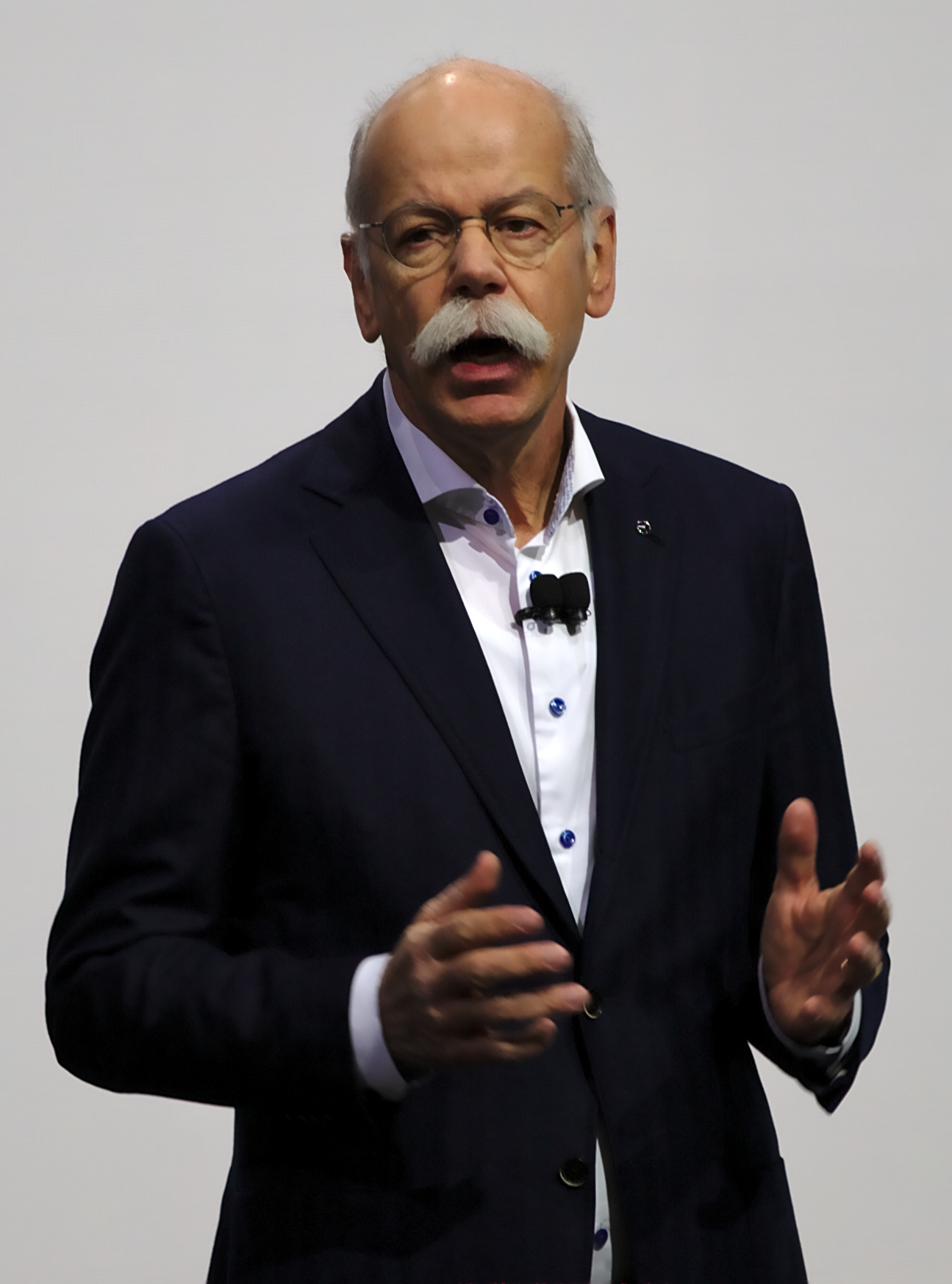 Dieter Zetsche at Geneva Motor Show 2019